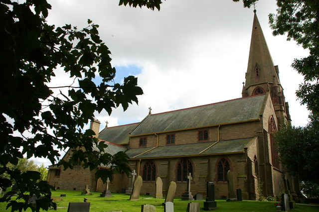 St Lawrence's parish church, Barton, Lancashire, England, seen from the northwest